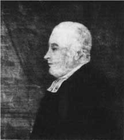 Depicted person: Abraham Bennet – British physicist